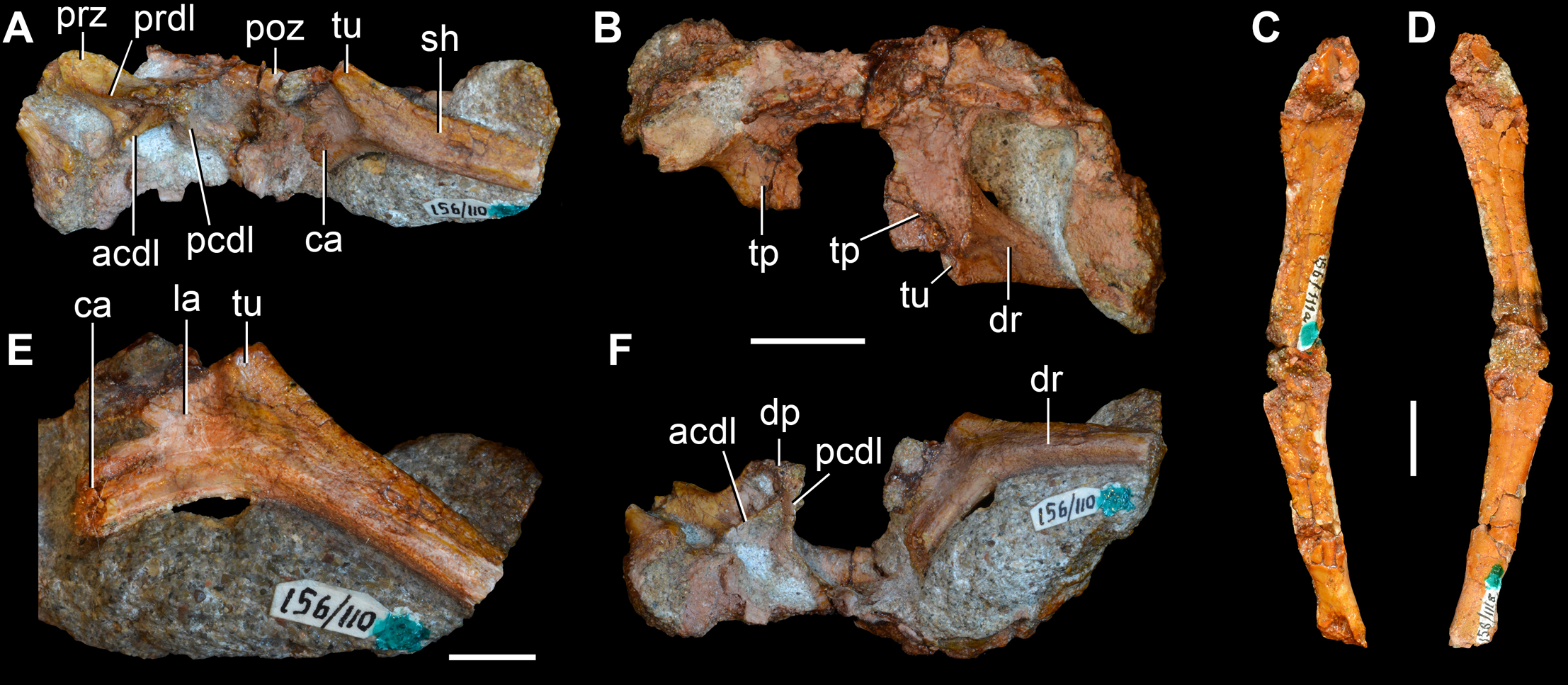 Eorasaurus olsoni, a possible early archosauriform from the late Middle–early Late Permian of Russia. Anterior dorsal vertebrae and rib in articulation (PIN 156/110: A, B, F), close-up of the anterior dorsal rib (E), and probable long bones (PIN 156/111a, b: C, D) in left lateral (A, E), dorsal (B), and ventral (F) views. Abbreviations: acdl, anterior centrodiapophyseal lamina; ca, capitulum; dp, diapophysis; dr, anterior dorsal rib; la, lamina; pcdl, posterior centrodiapophyseal lamina; prdl, prezygodiapophyseal lamina; poz, postzygapophysis; prz, prezygapophysis; sh, shaft; tp, transverse process; tu, tuberculum. Scale bars equal 1 cm in (A–D, F) and 5 mm in (E).